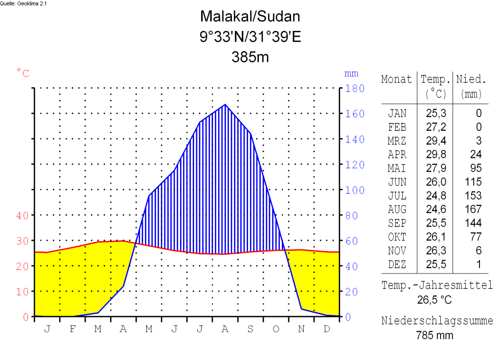 Climate chart of Malakal - South Sudan. in the format by Walter and Lieth, metric, °Celsisus and millimeters, made with Geoklima 2.1 (2007).